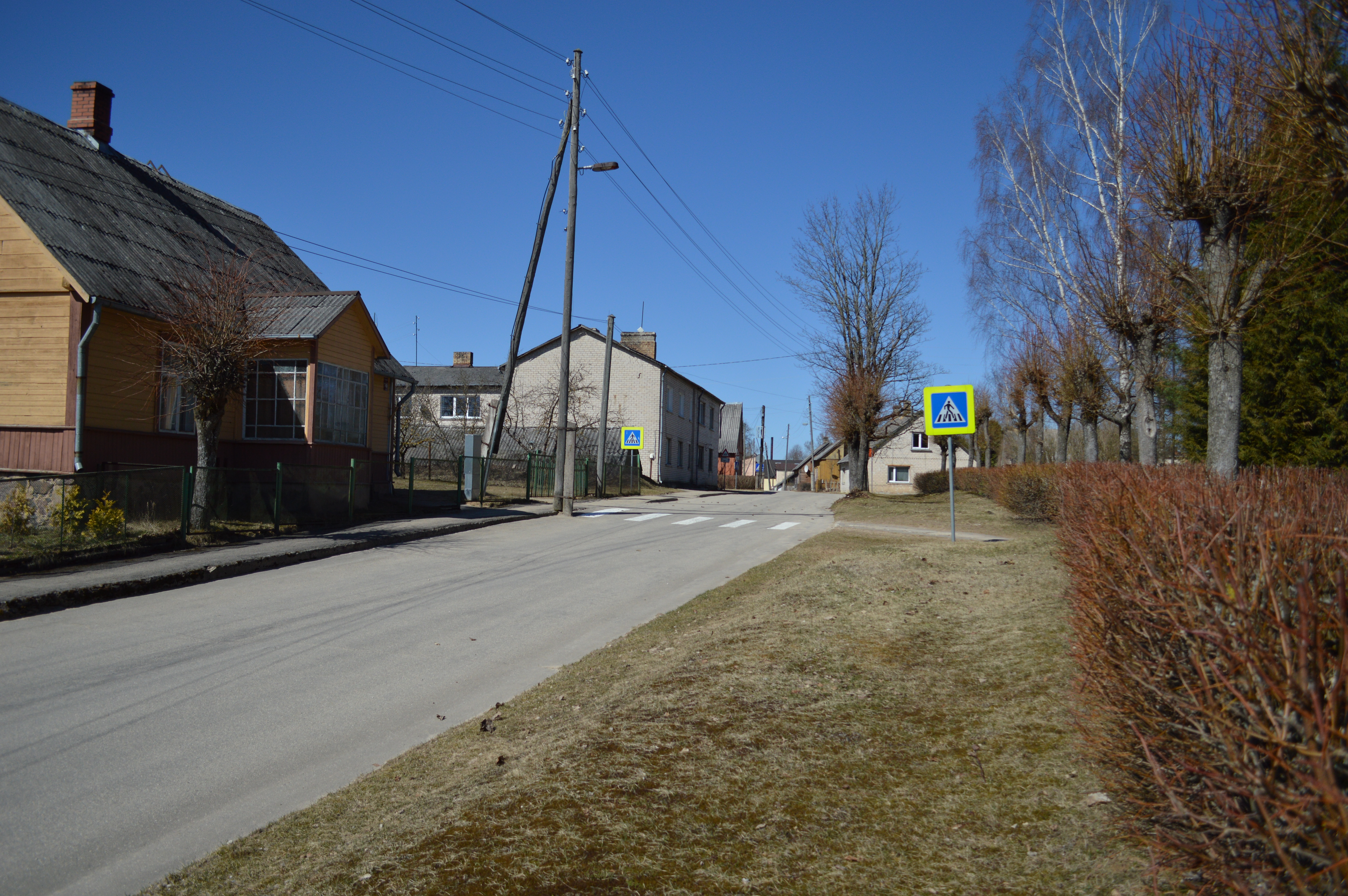 Annas Brodeles street, Viesīte town.